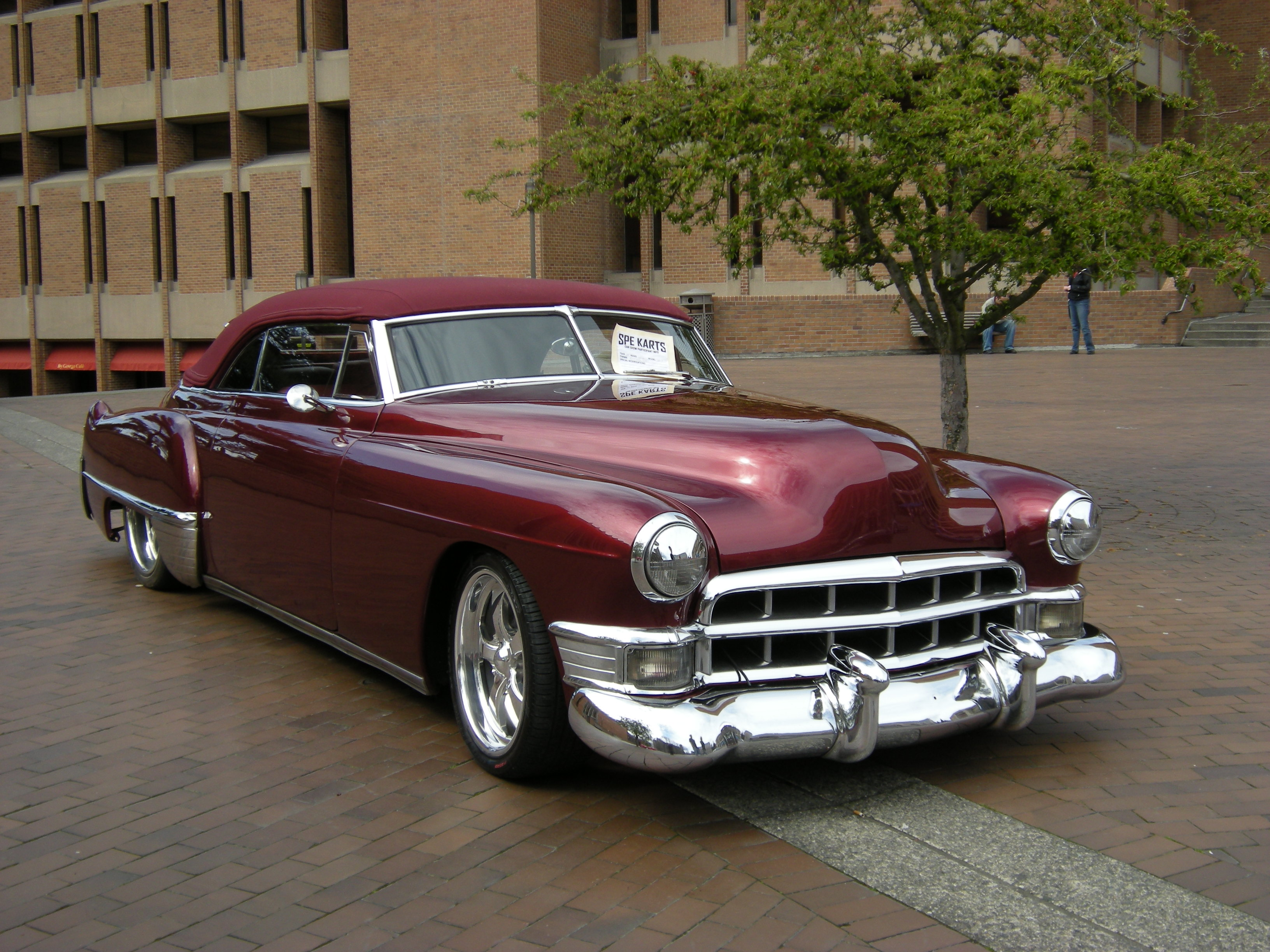 Somewhat customized 1949 Cadillac Series 49-6237 Convertible photographed on the University of Washington campus.